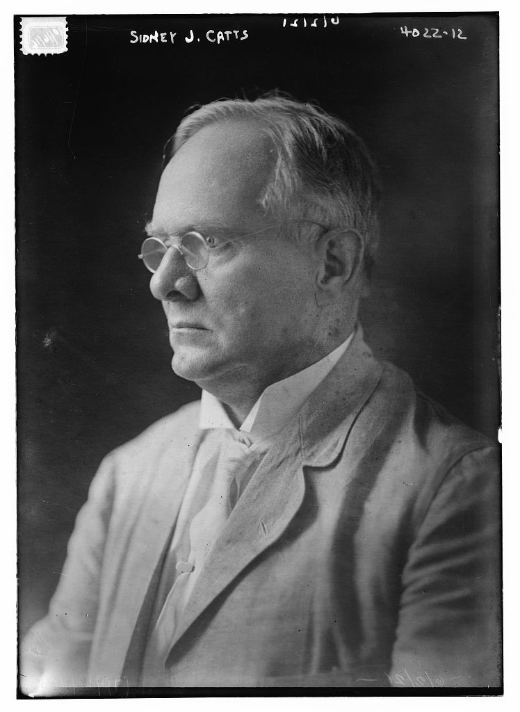 Sidney Johnston Catts in 1916